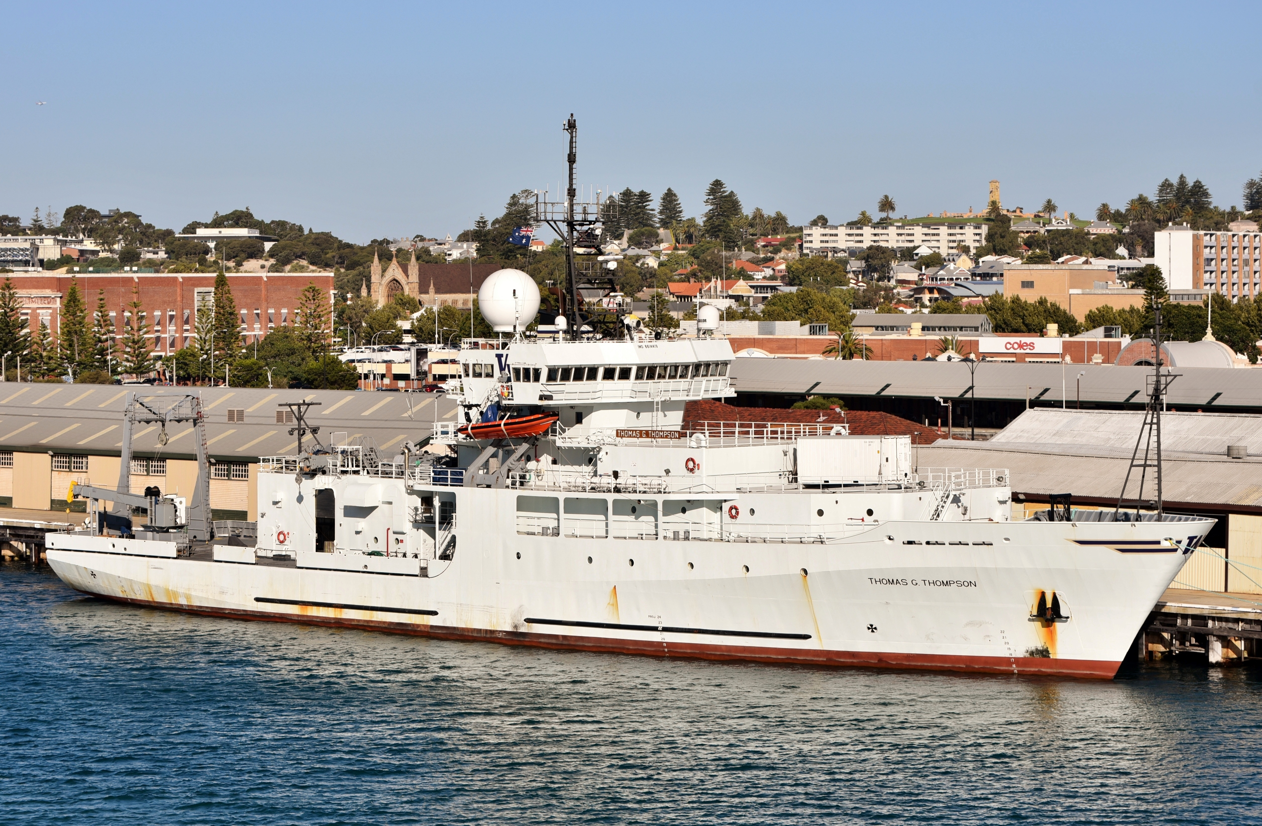 United States Navy research vessel Thomas G. Thompson berthed at Victoria Quay, in the inner harbour of the Port of Fremantle, Western Australia